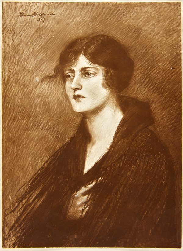 Photograph of pastel portrait, Mrs. Grey (1917) of Alexander Simpson by the Australian sculptor Dora Ohlfsen (1869–1948), who lived and worked in Rome for decades. Simpson was the model for Ohlfsen's Anzac medal (1916). This photograph was one of a series of photographs of her work taken by Ohlfsen in Rome and sent to her niece, Dora Stanford. Stanford gave it to the Art Gallery of New South Wales, which published it on its website a few years ago. The photograph was not (so far as I know) published in Ohlfsen's lifetime. The work itself was shown in Sydney in 1920 but is lost.